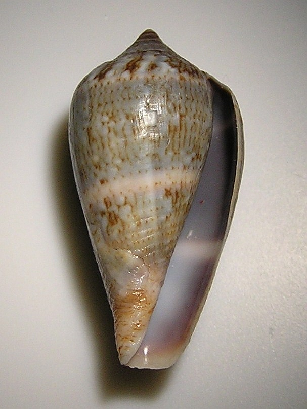 Conus hybridus Kiener, 1845 ; Senegal